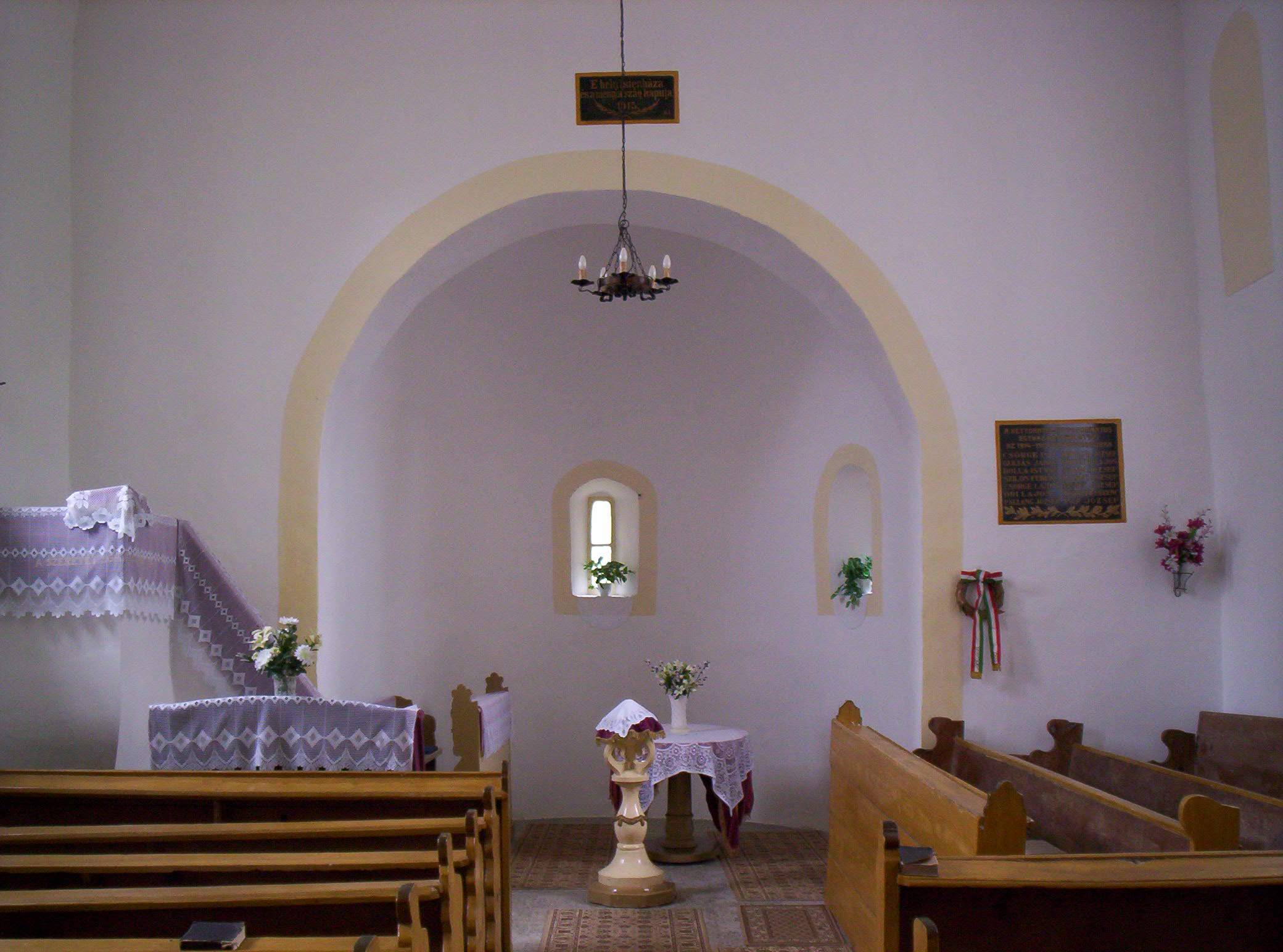 Inside the Calvinist church in Kéttornyúlak, Hungary. A kéttornyúlaki református templom belseje